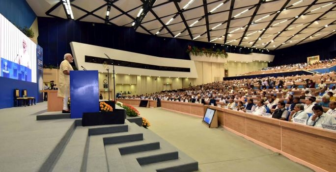 At NITI Aayog's maiden annual lecture on Transforming India